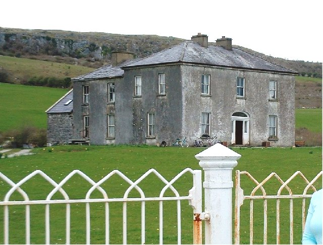 Father Ted's House, "Craggy Island" "Craggy Island" is fiction, but the house used for exterior shots in the Father Ted series is actually located here in the Burren, Co. Clare.